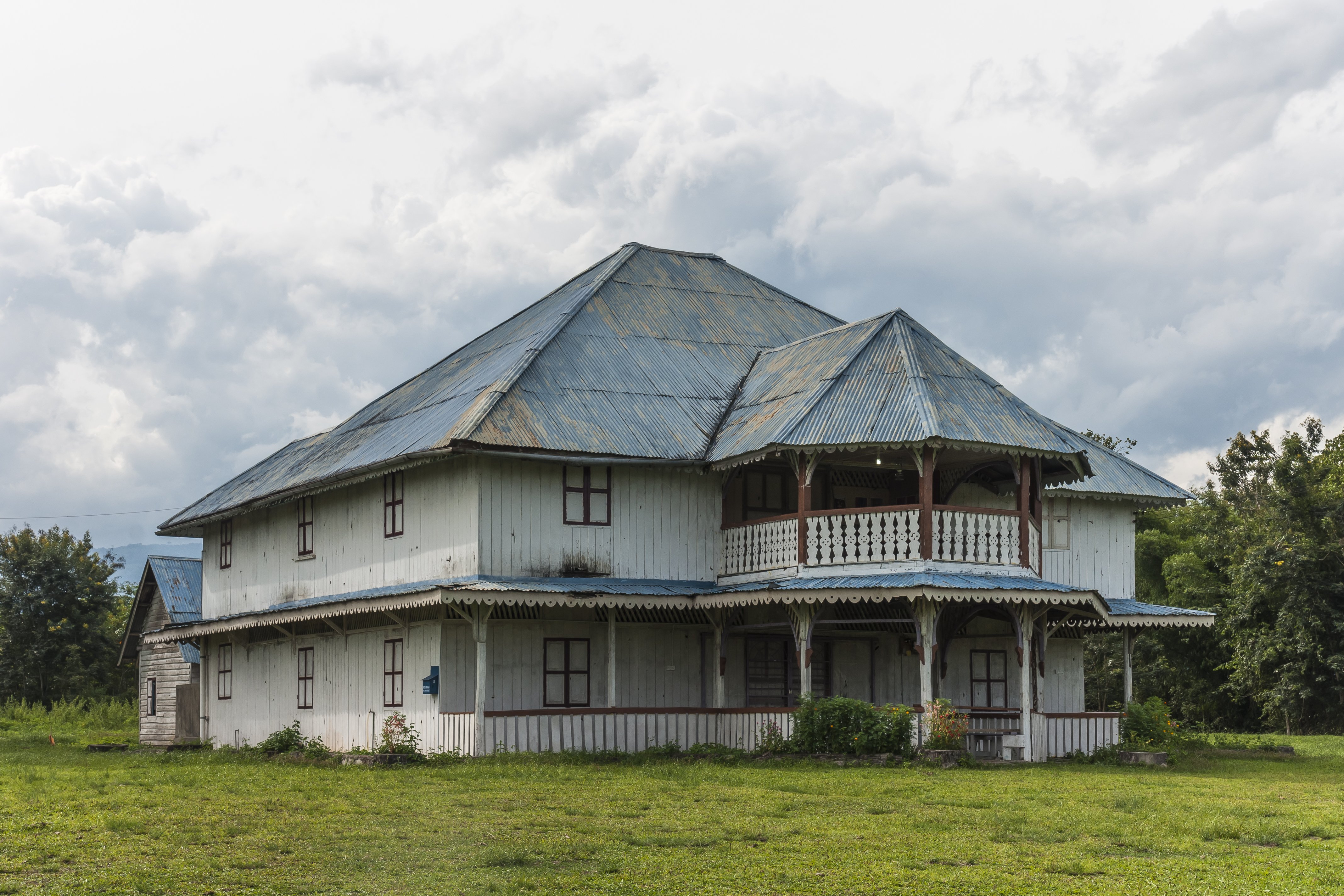 Bingkor, Sabah: Rumah Besar Sedomon